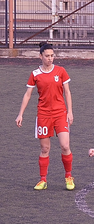 Ceren Nurlu at away match against Marmara Üniversitesi Spor on Jan 12, 2014